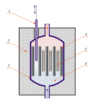 Heterogeneous nuclear reactor. See key below.